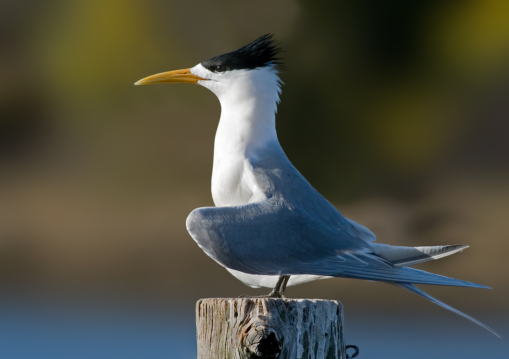 Crested Tern (Thalasseus bergii), in breeding plumage, displaying in Tasmania, Australia